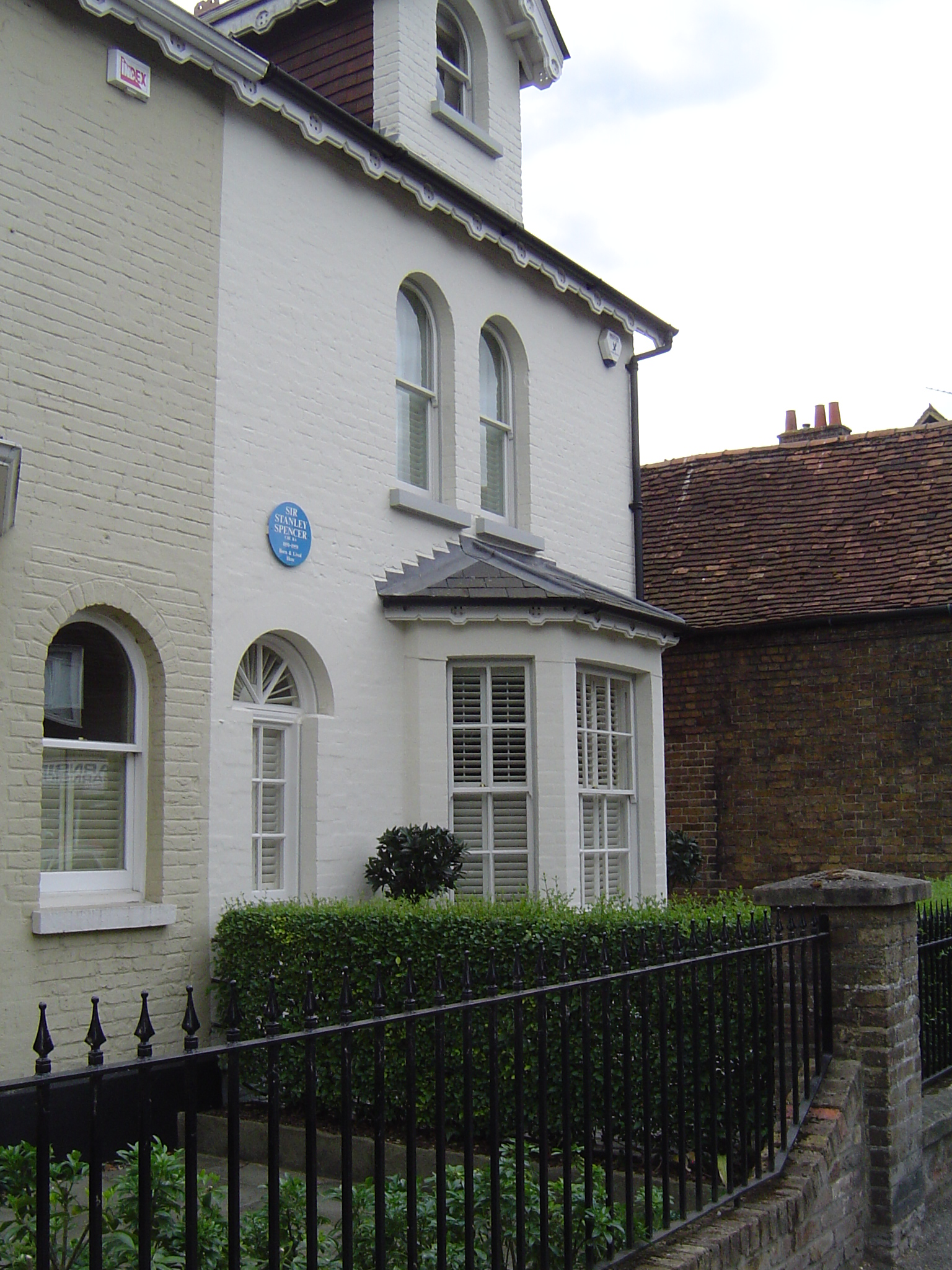 Birthplace and home of Stanley Spencer - marked by Blue Plaque